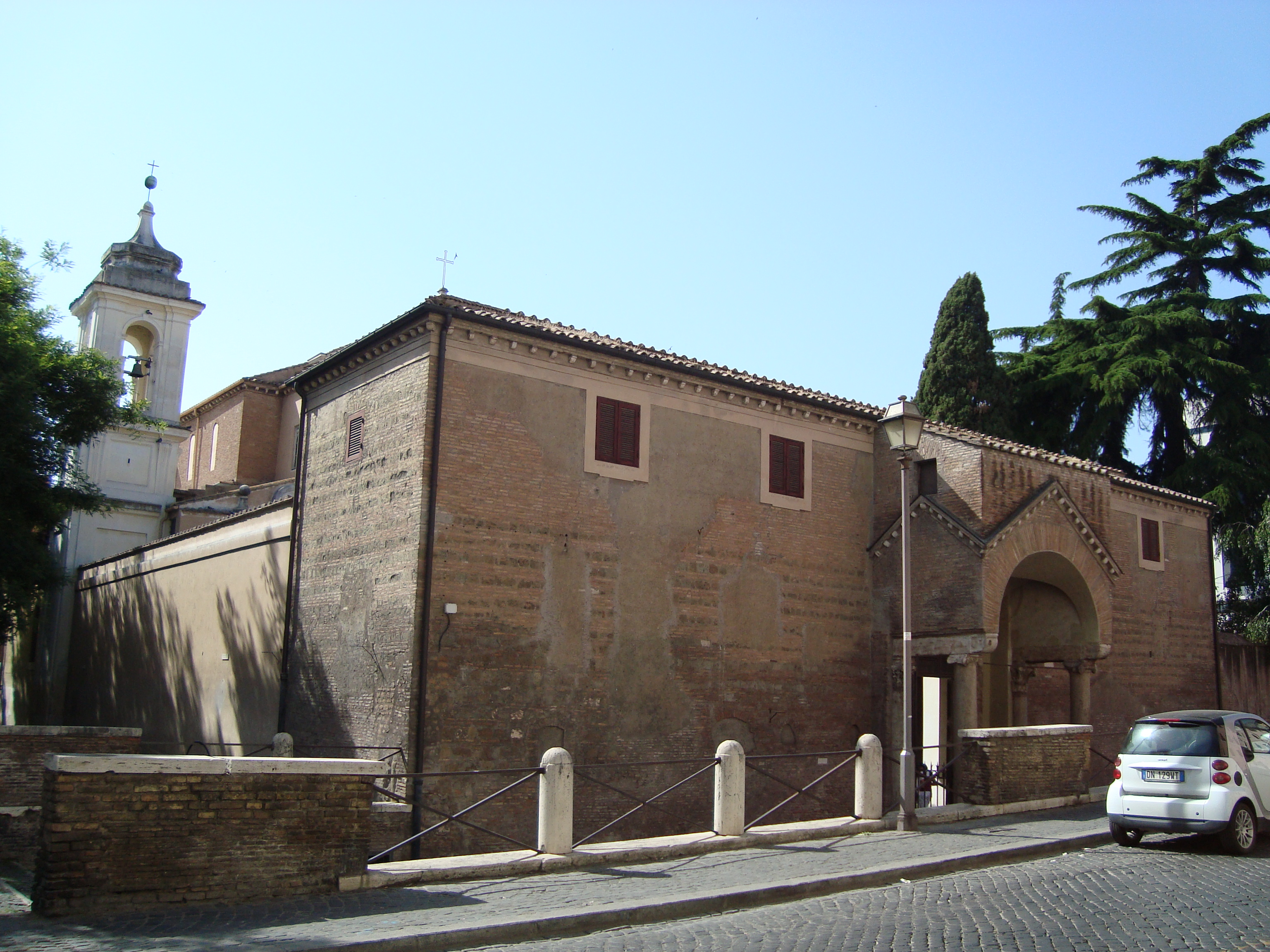 Entrance and portico of the church San Clemente in Laterano of Rome